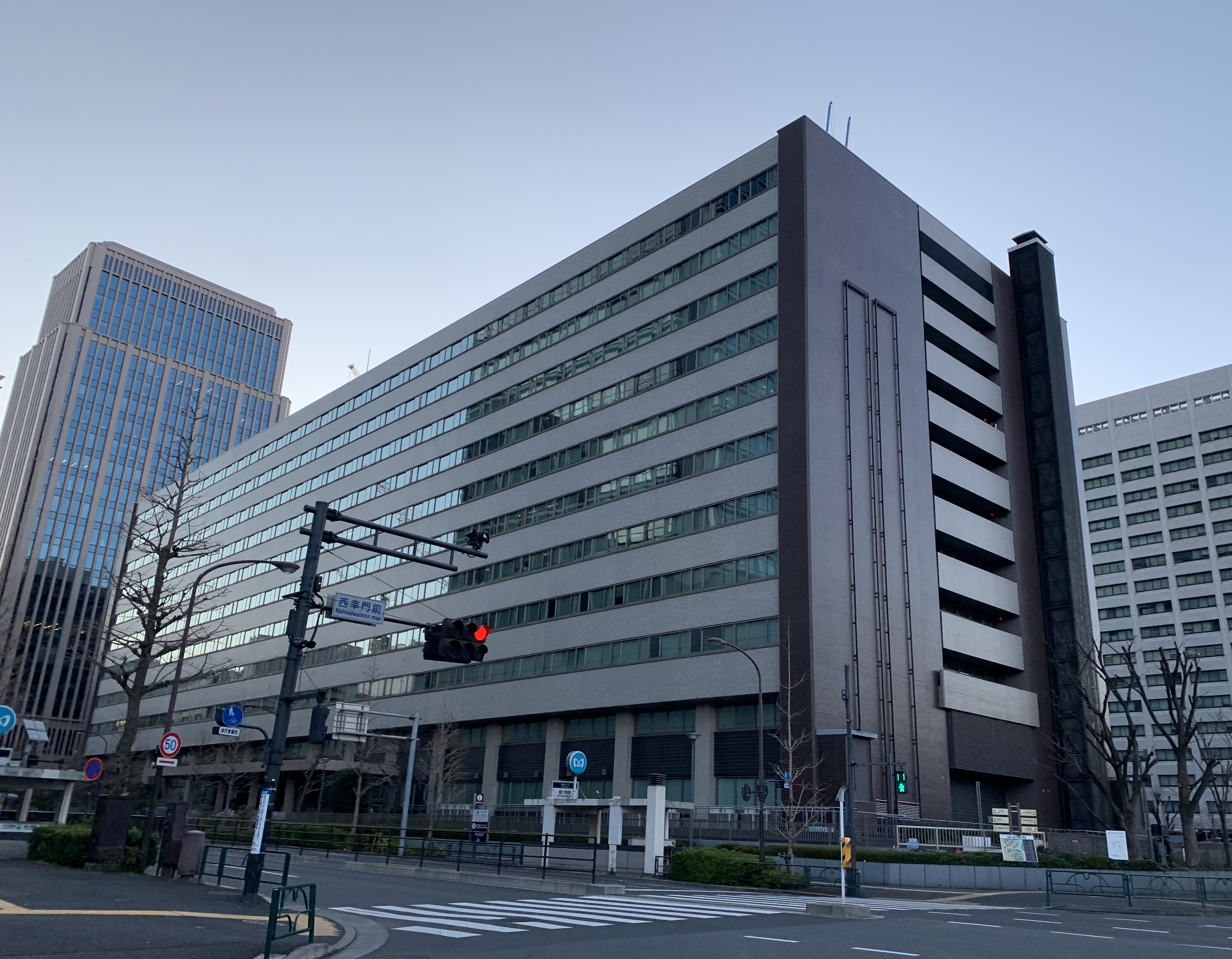 1月3日16:09 撮影